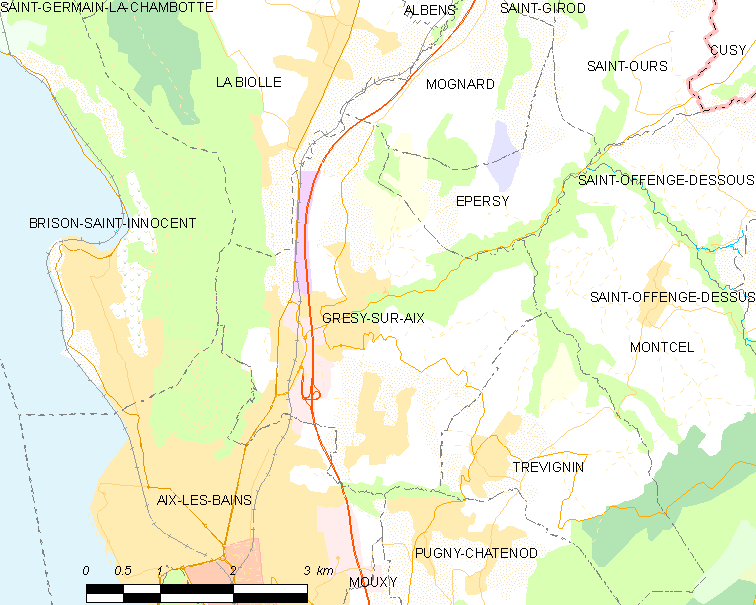 Map of French municipality